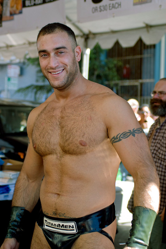 Spencer Reed at Folsom Street Fair 2010